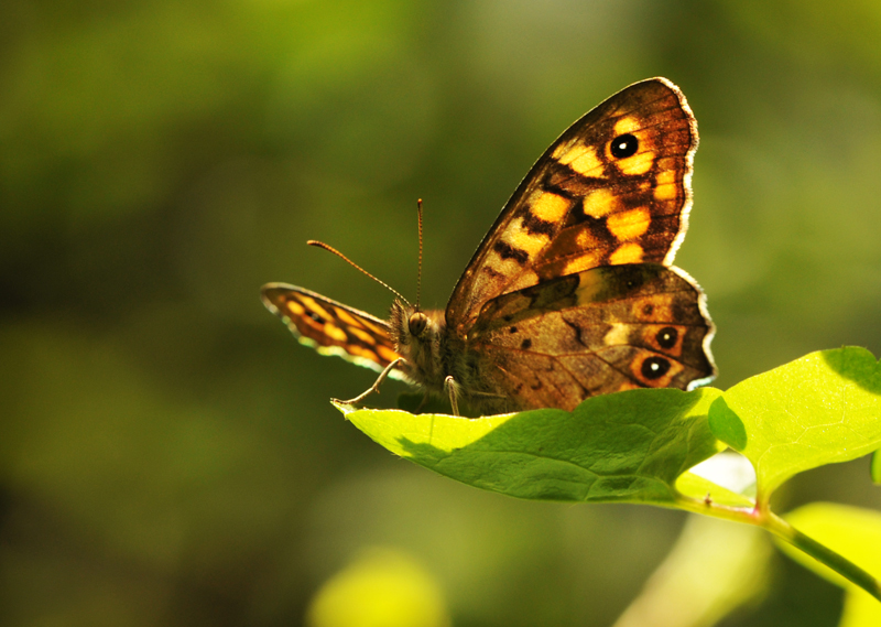 Wing underside view of a "speckled wood" butterfly (Pararge aegeria ssp. aegeria). Adana, Turkey. 45 m.